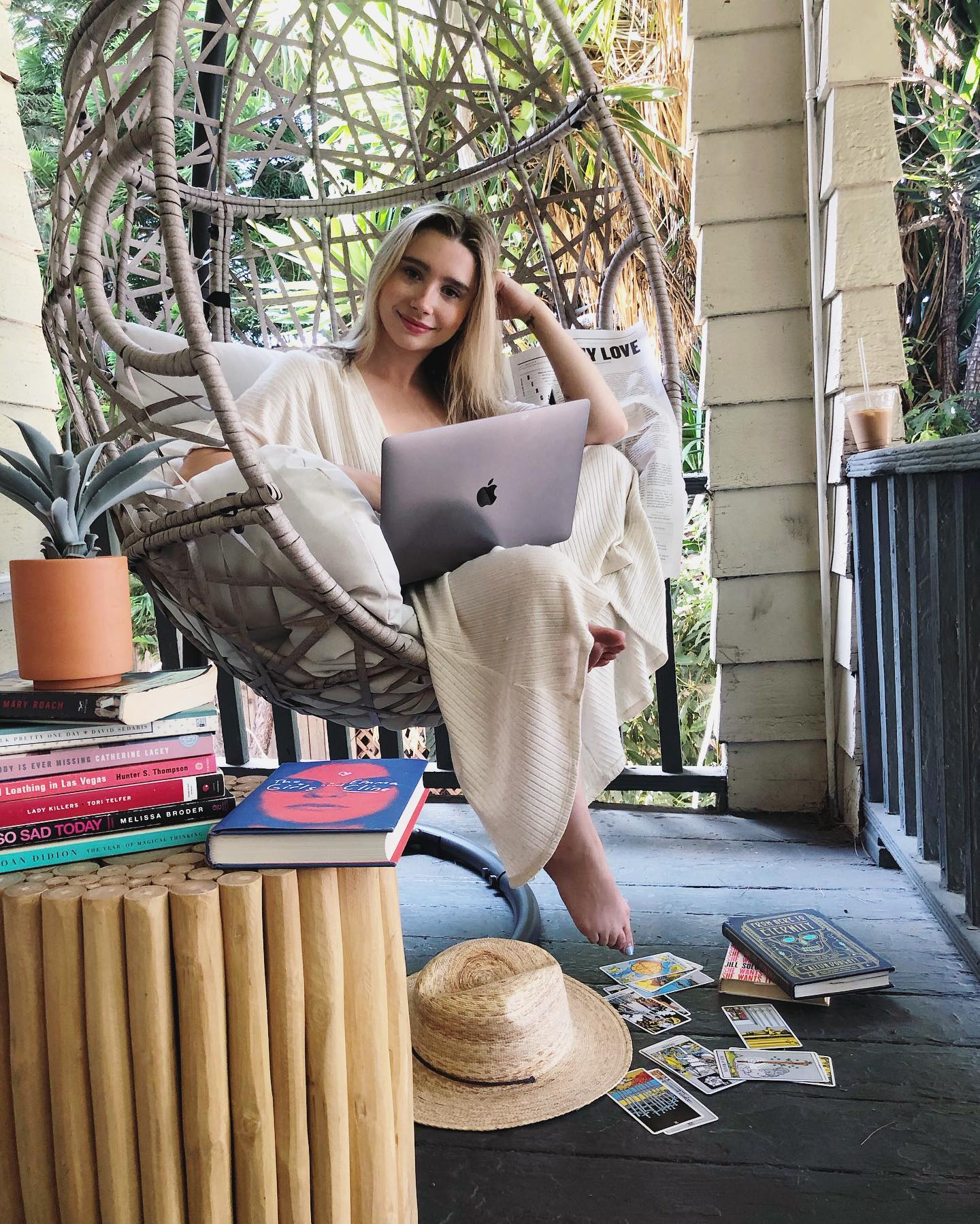 Author Amanda Montell writing at her home in Los Angeles.